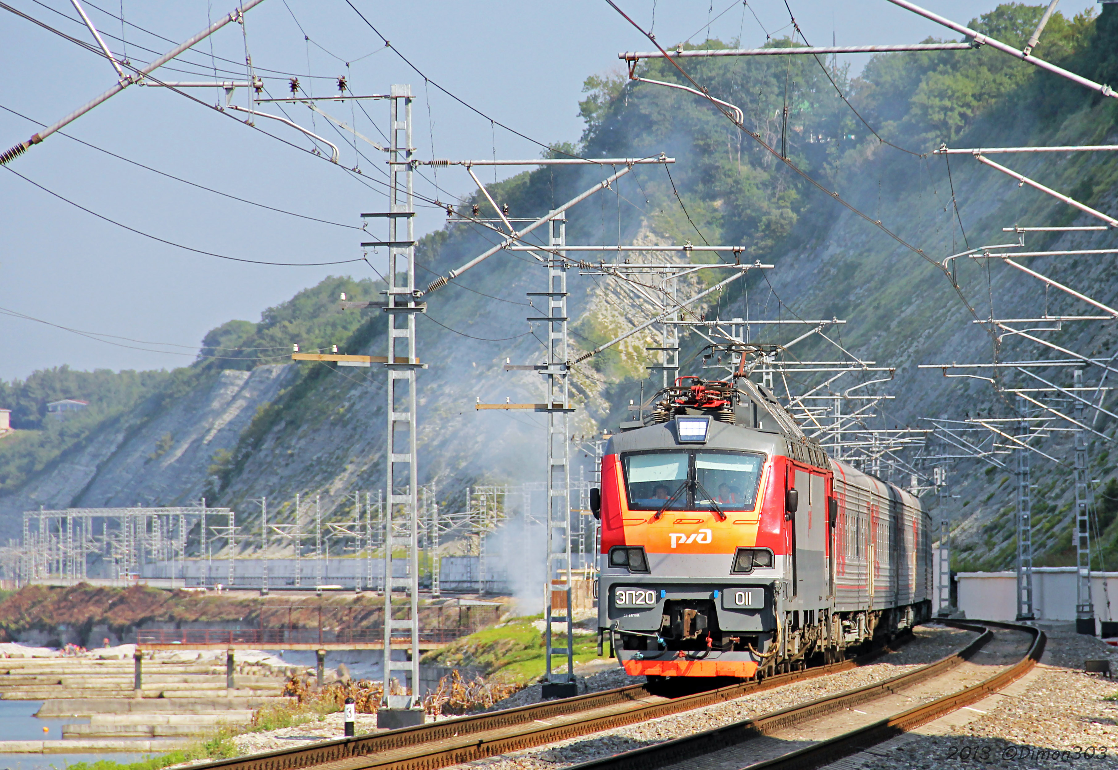 EP20 electric locomotive with passenger train on Shepsi-Tuapse span.